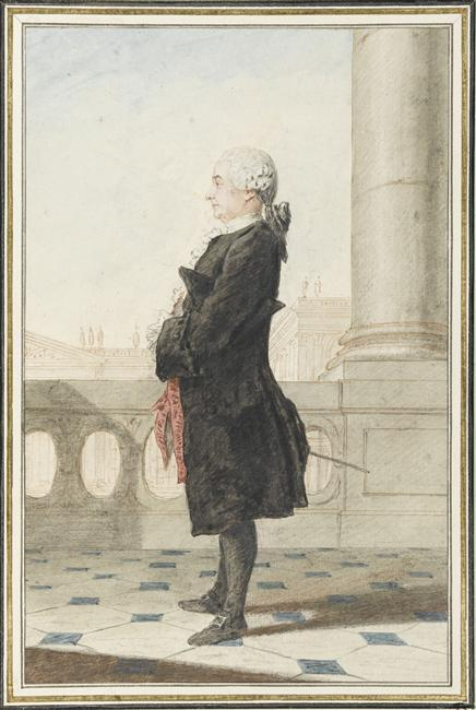 Charles Pinot Duclos (1704-1772), french writer